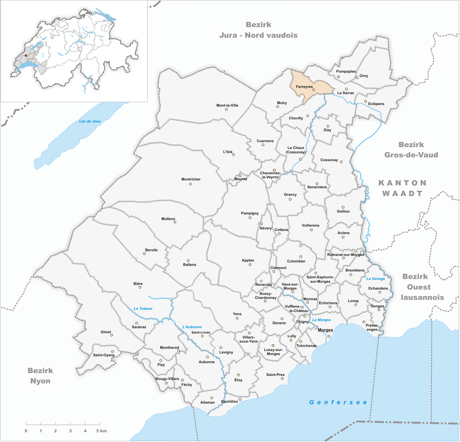 Municipality Ferreyres